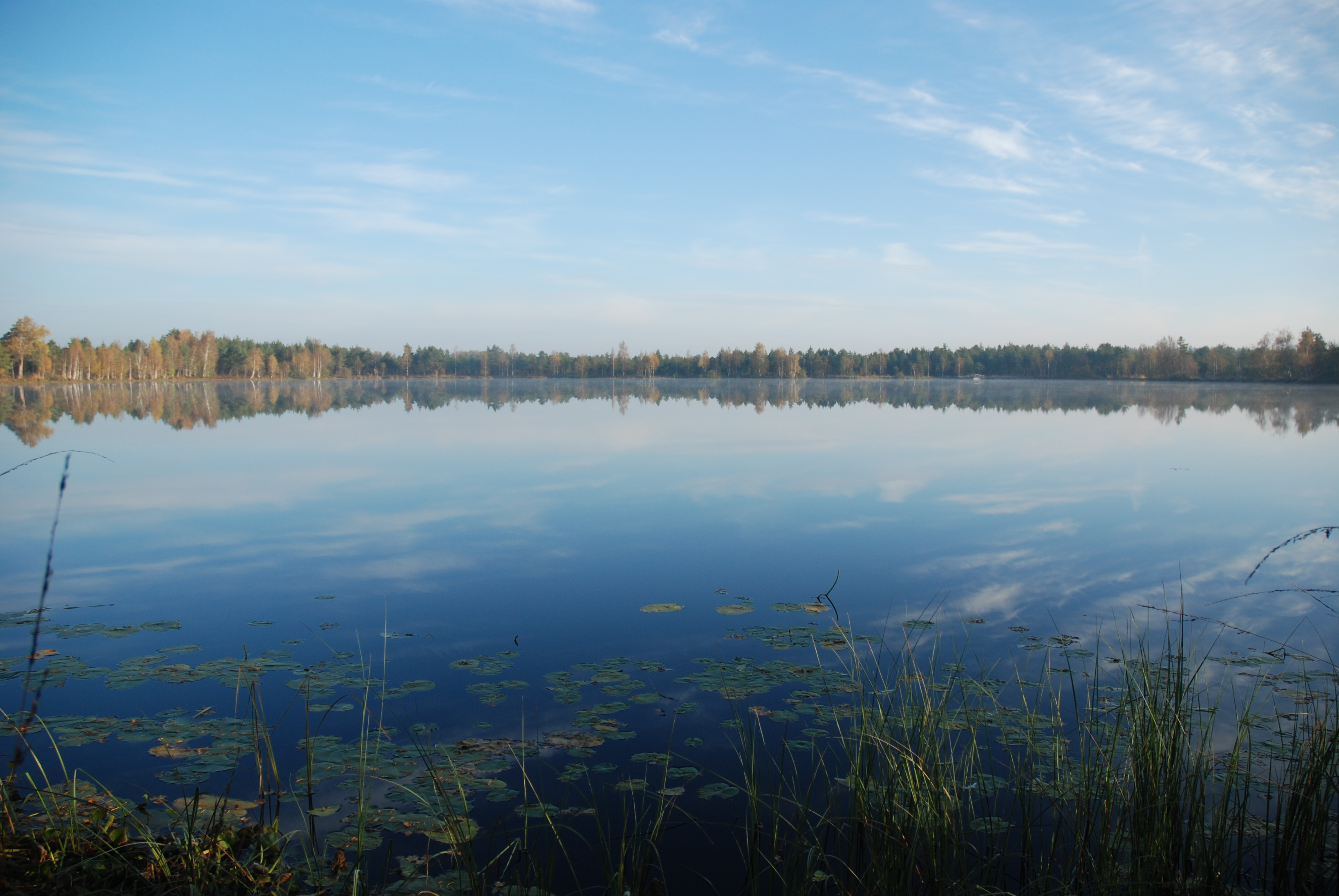 The lake of Miknaičiai in Mūša Upland Bog